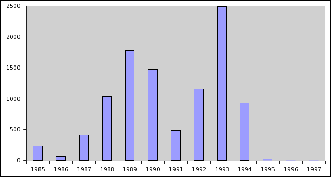 The inflation rate of Brazil 1985-1997. Exact numbers below.